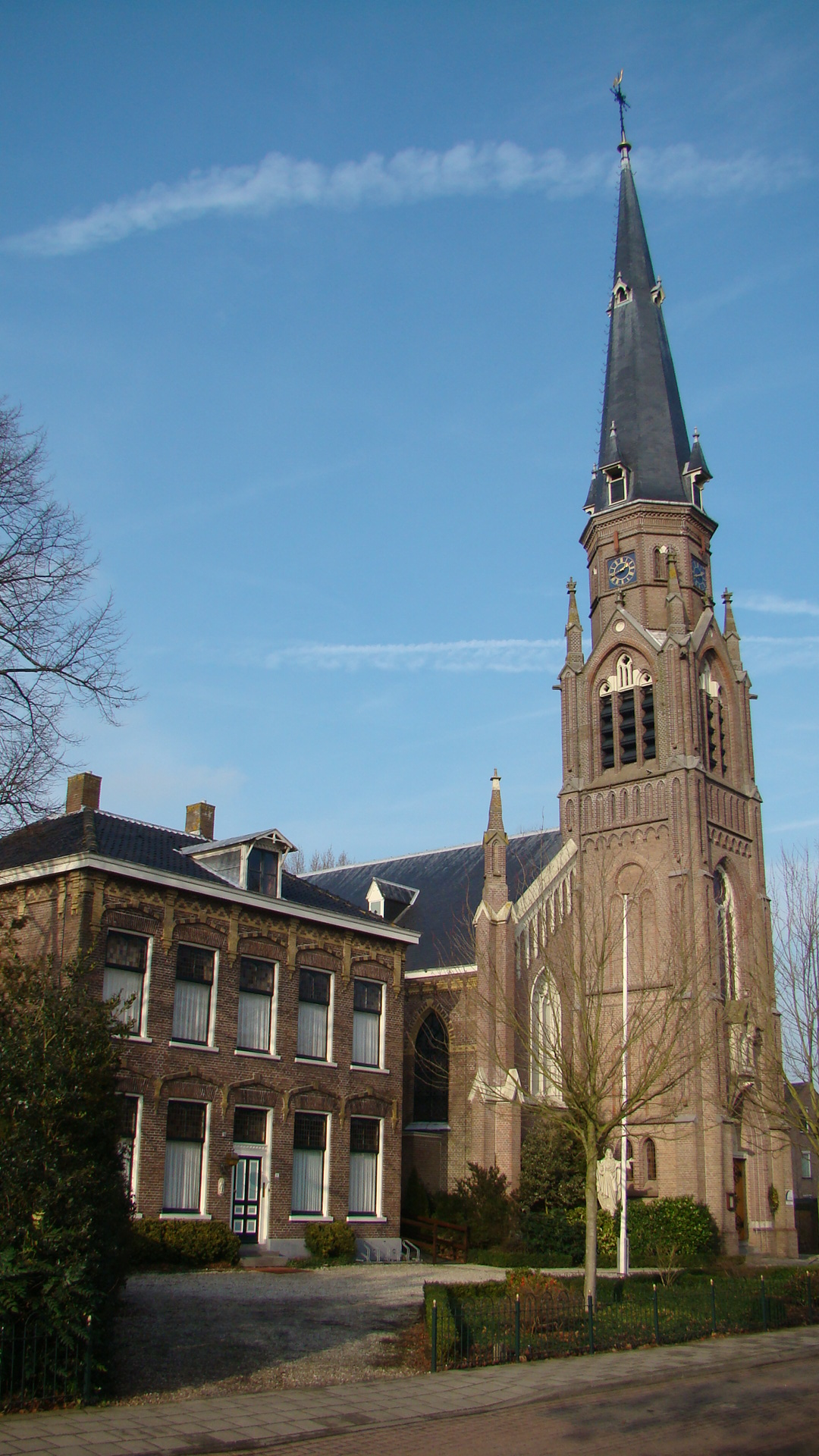 ST Nicolaas church in Nieuwveen, Netherlands